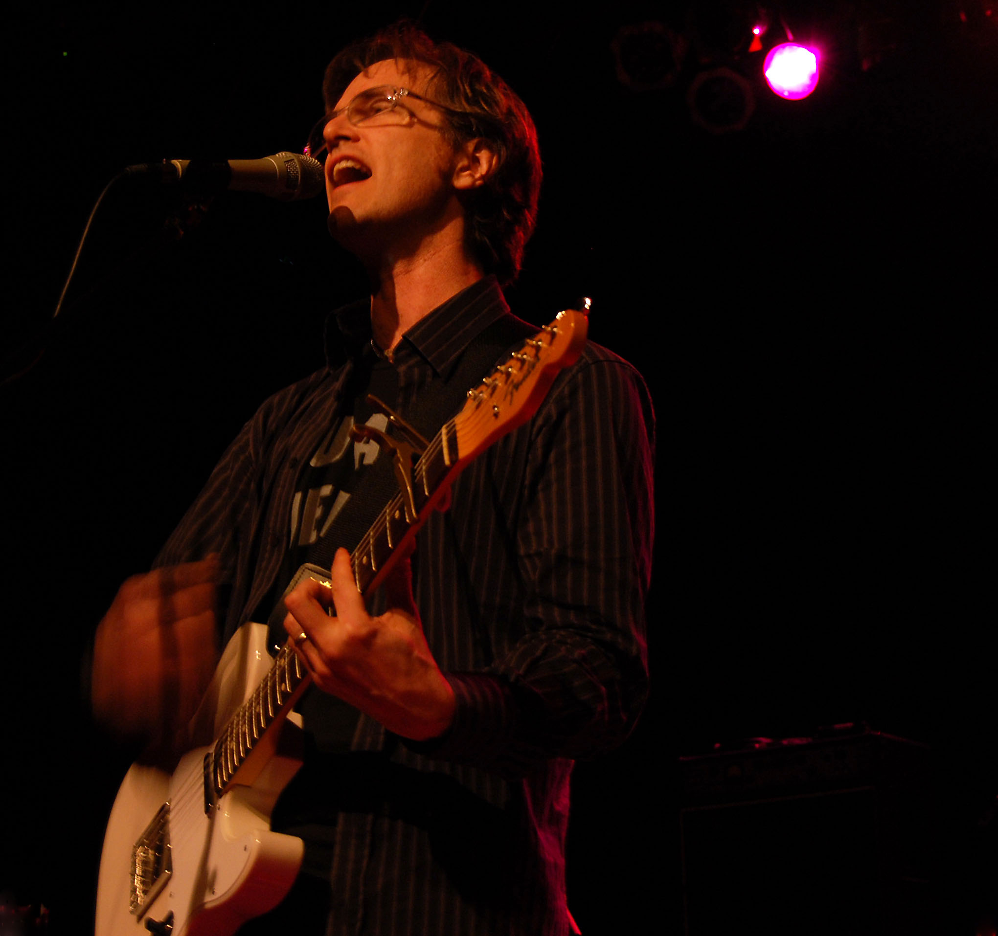 Dan Wilson of the music group Semisonic. Photo taken on April 12, 2008.